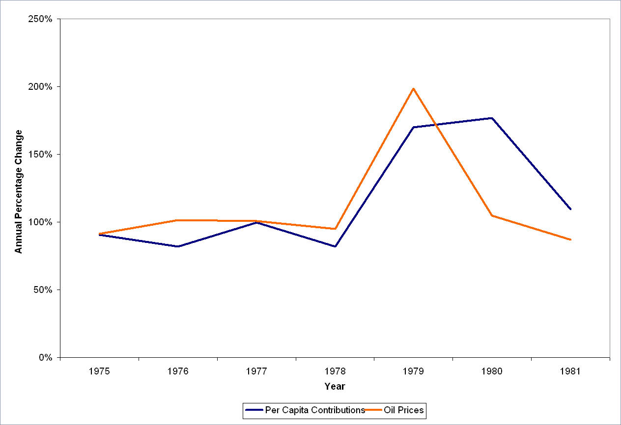 Alberta Per Capita Federal Contributions and International Oil Prices, 1975-1981, when the Canadian National Energy Program took effect. Sources: oil prices from the spreadsheets compiled by the authors of the graph of long term oil prices: File:Oil_Prices_1861_2007.svg; per capita Alberta contributions are from Table A.2: Per Capita Federal Fiscal Balance by Province, Cash-Flow Basis (2004$) in the research paper Energy, Fiscal Balances and National Sharing. Each line represents the percentage difference in value from the previous year, 1975 through 1981.